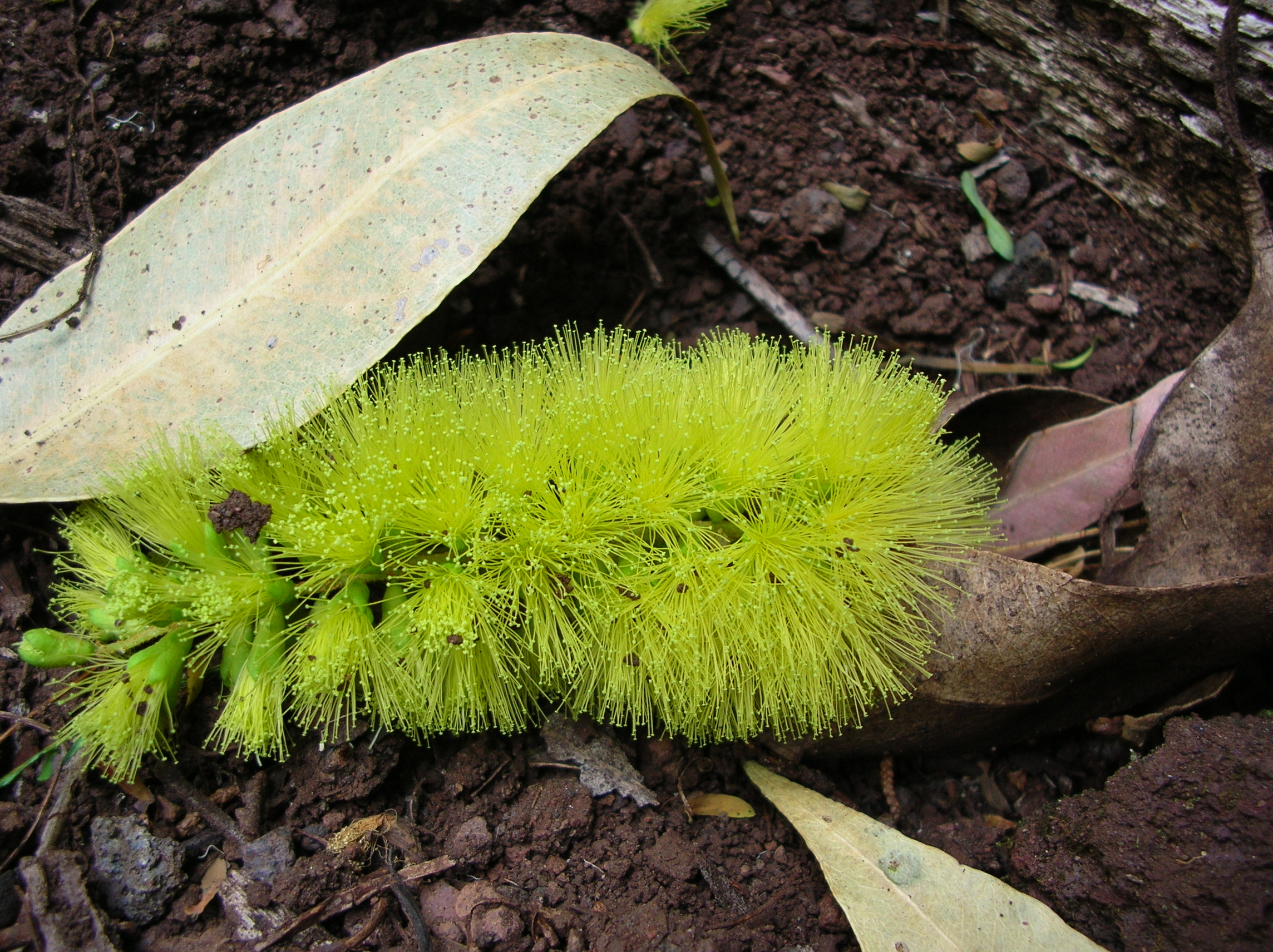 Paraserianthes lophantha subsp. montana (flowers). Location: Maui, Polipoli